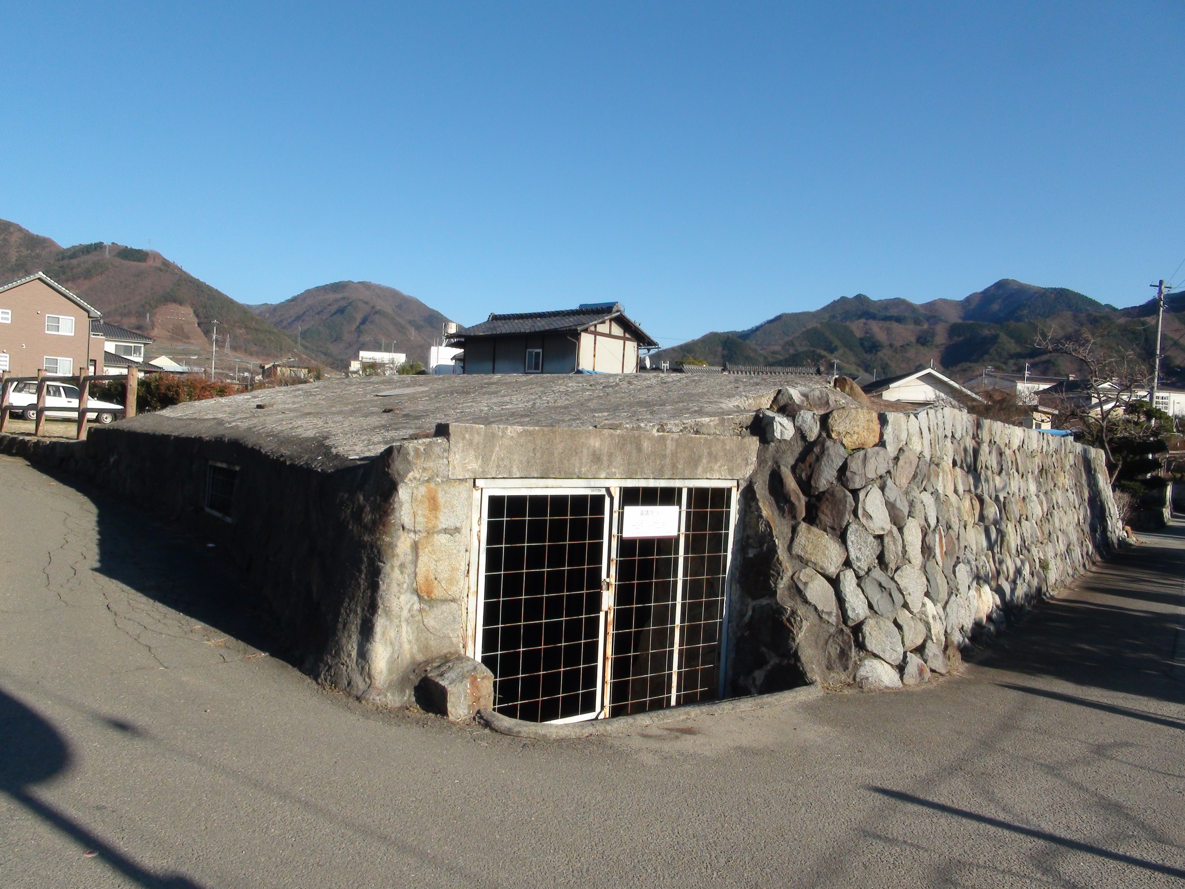 Ryuken cellars.Registered Tangible Cultural Property of Japan